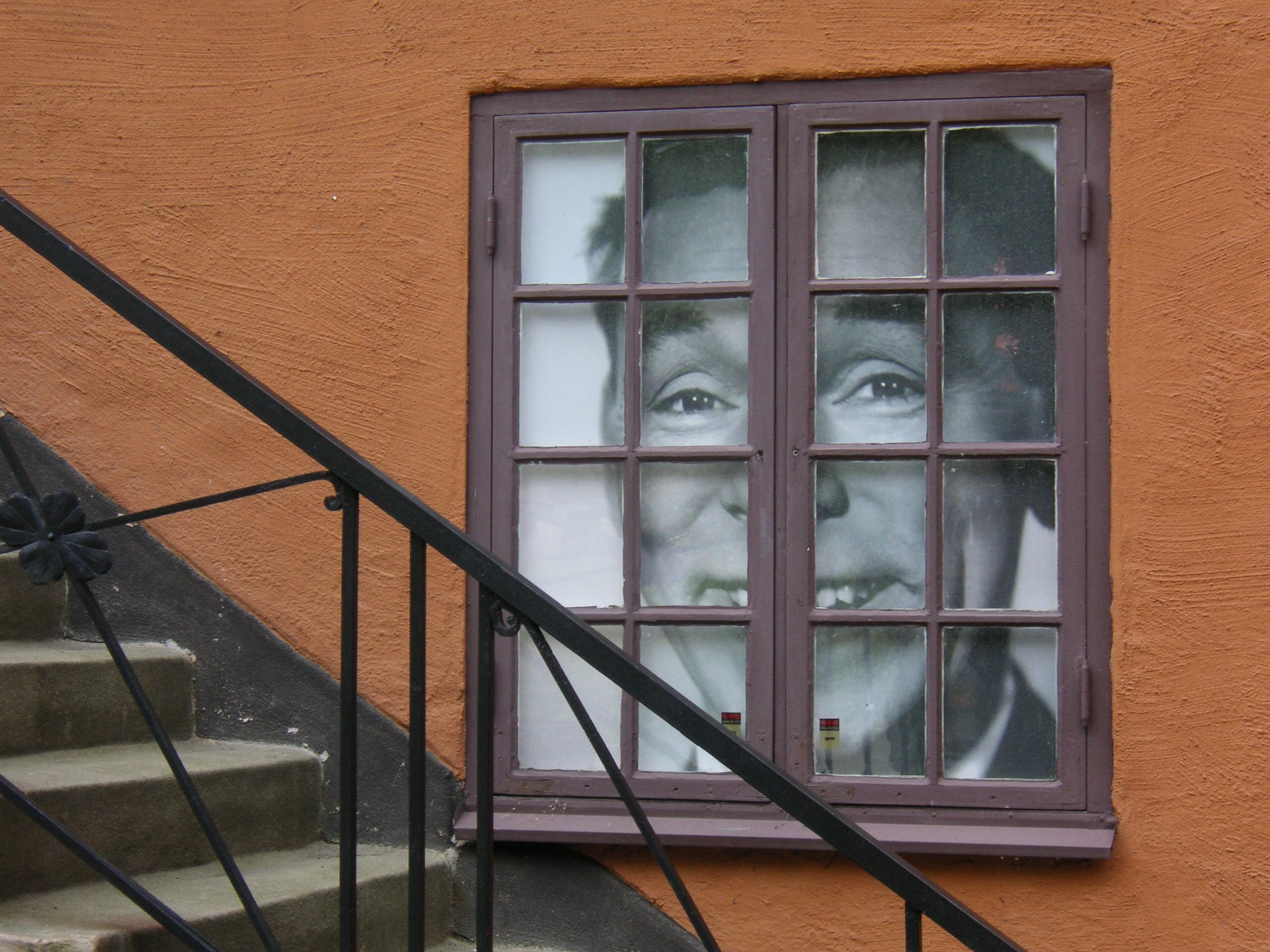 The former Swedish filmstudios "Filmstaden" in Solna